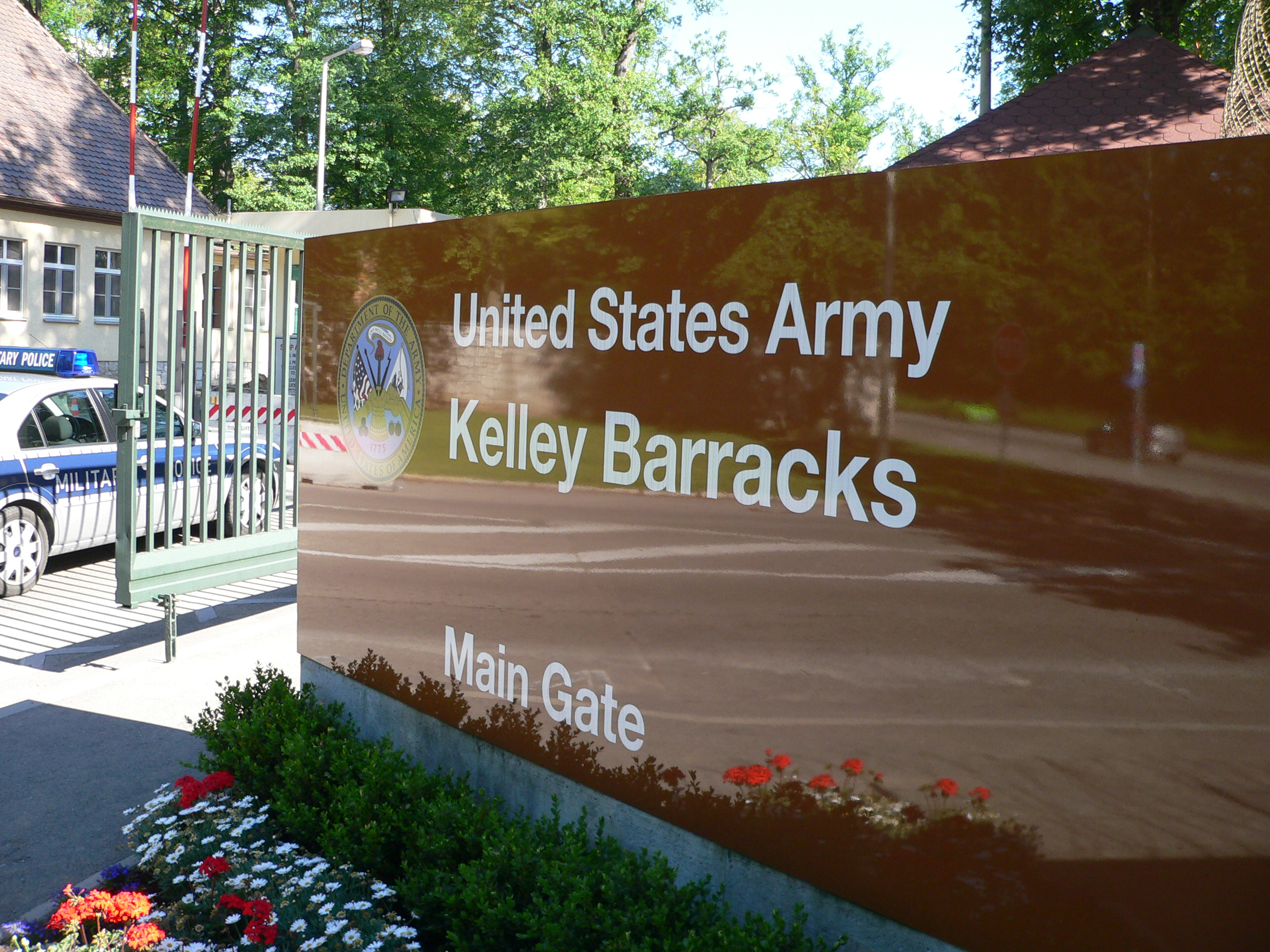 Entrance gate to Kelley Barracks